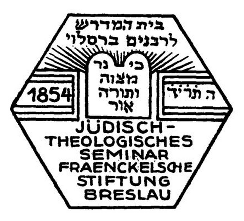 The logo of the Jewish Theological Seminary of Breslau, as appeared on its 1928 Annual Report, published by its institute press.